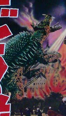 Anguirus, a detail from Japanese movie poster for 1955 Japanese film Godzilla Raids Again (ゴジラの逆襲, Gojira no Gyakushū)